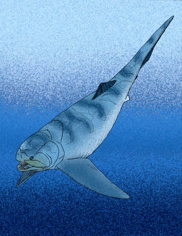 User:Apokryltaros reconstruction of the Late Devonian planktivorous arthrodire, Titanichthys agassizi